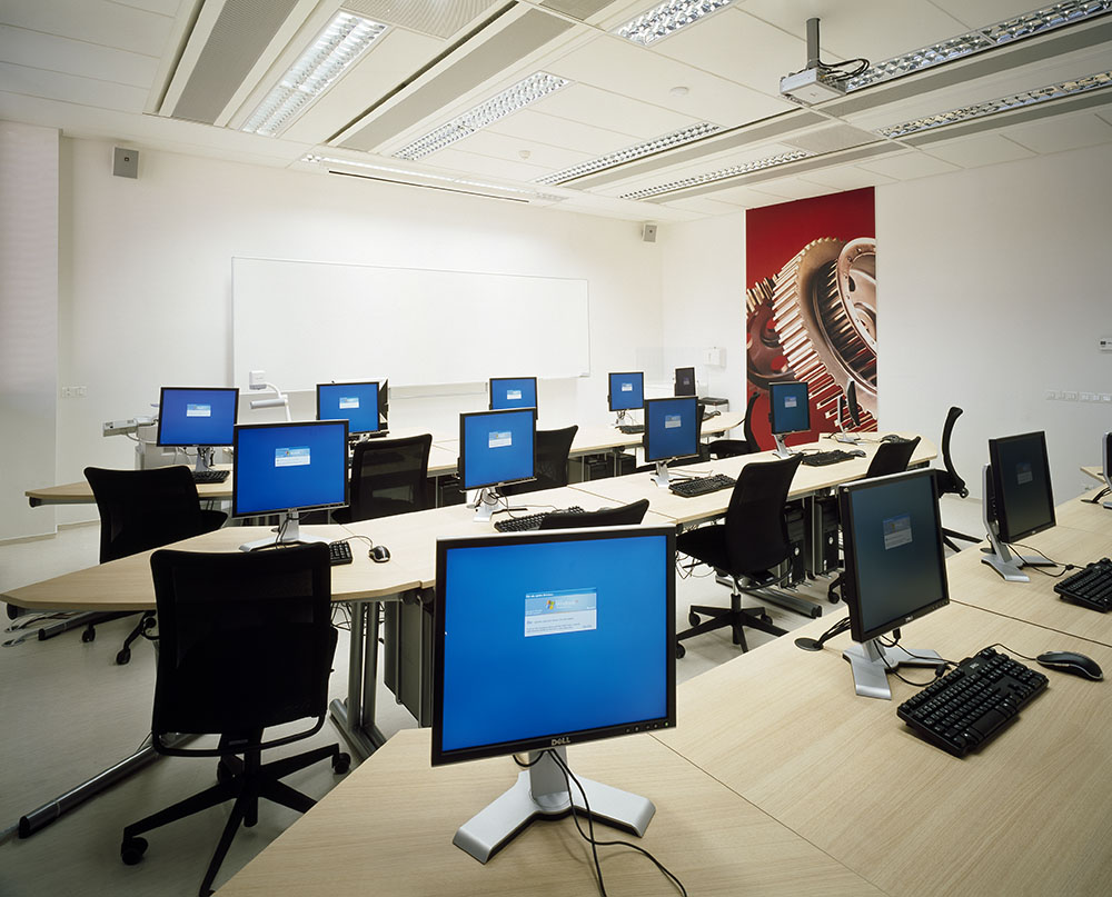 Classroom of ŠAVŠ Česky: Počítačová učebna na ŠAVŠ